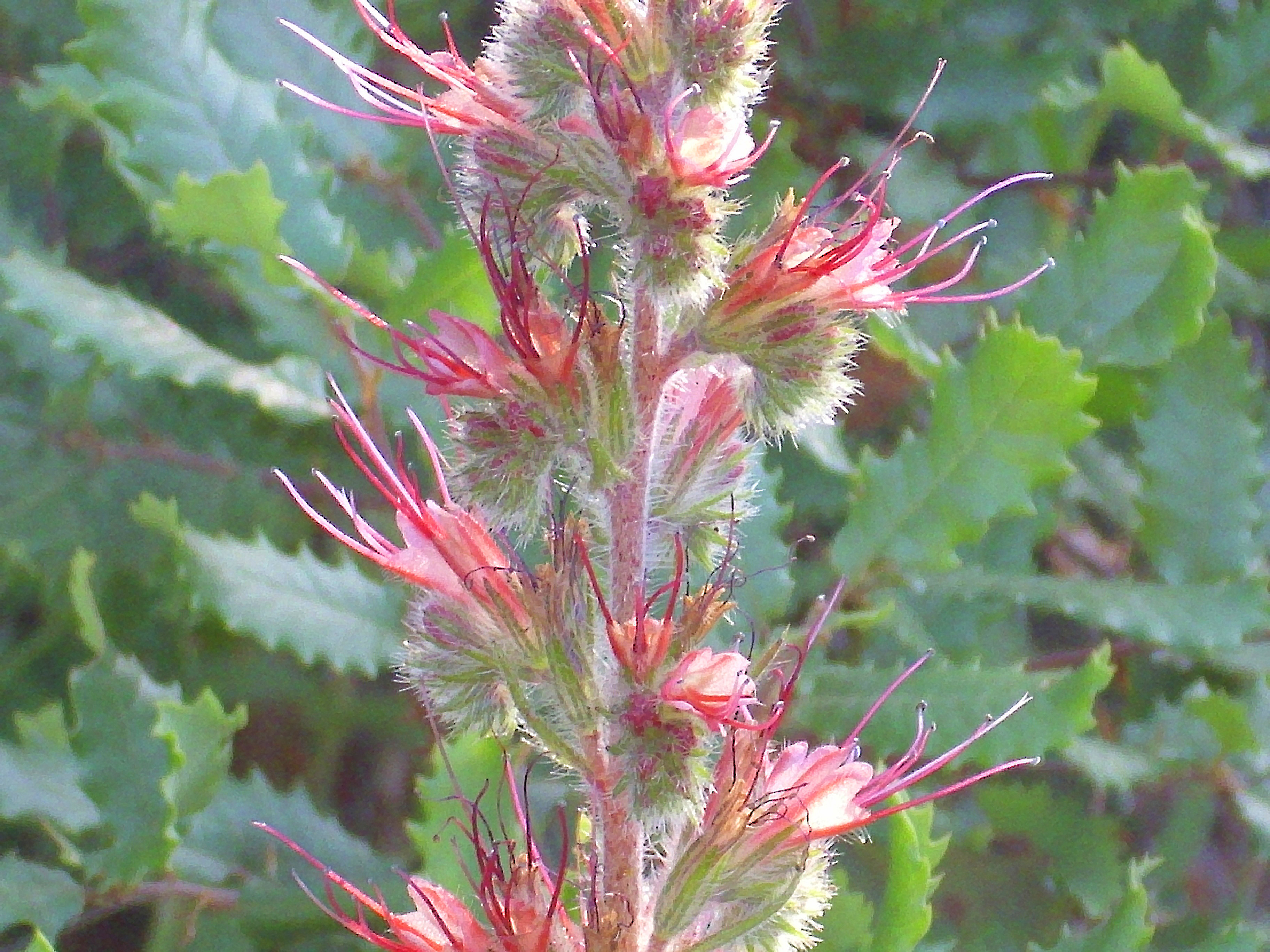 Echium flavum flowers closeup, Sierra Madrona, Spain